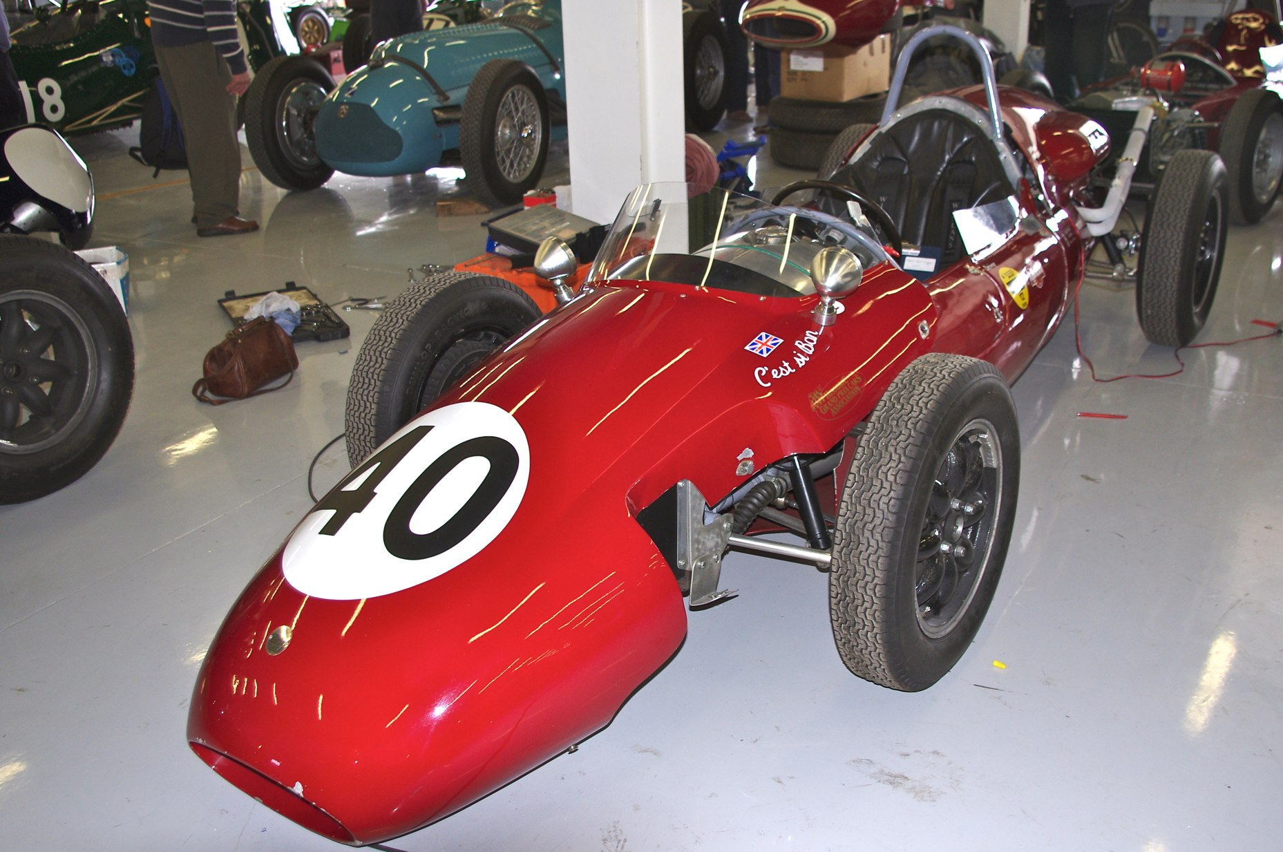 Silverstone Classic 2011